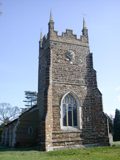 Everton church. St Mary's Church, Everton. Read more about it here